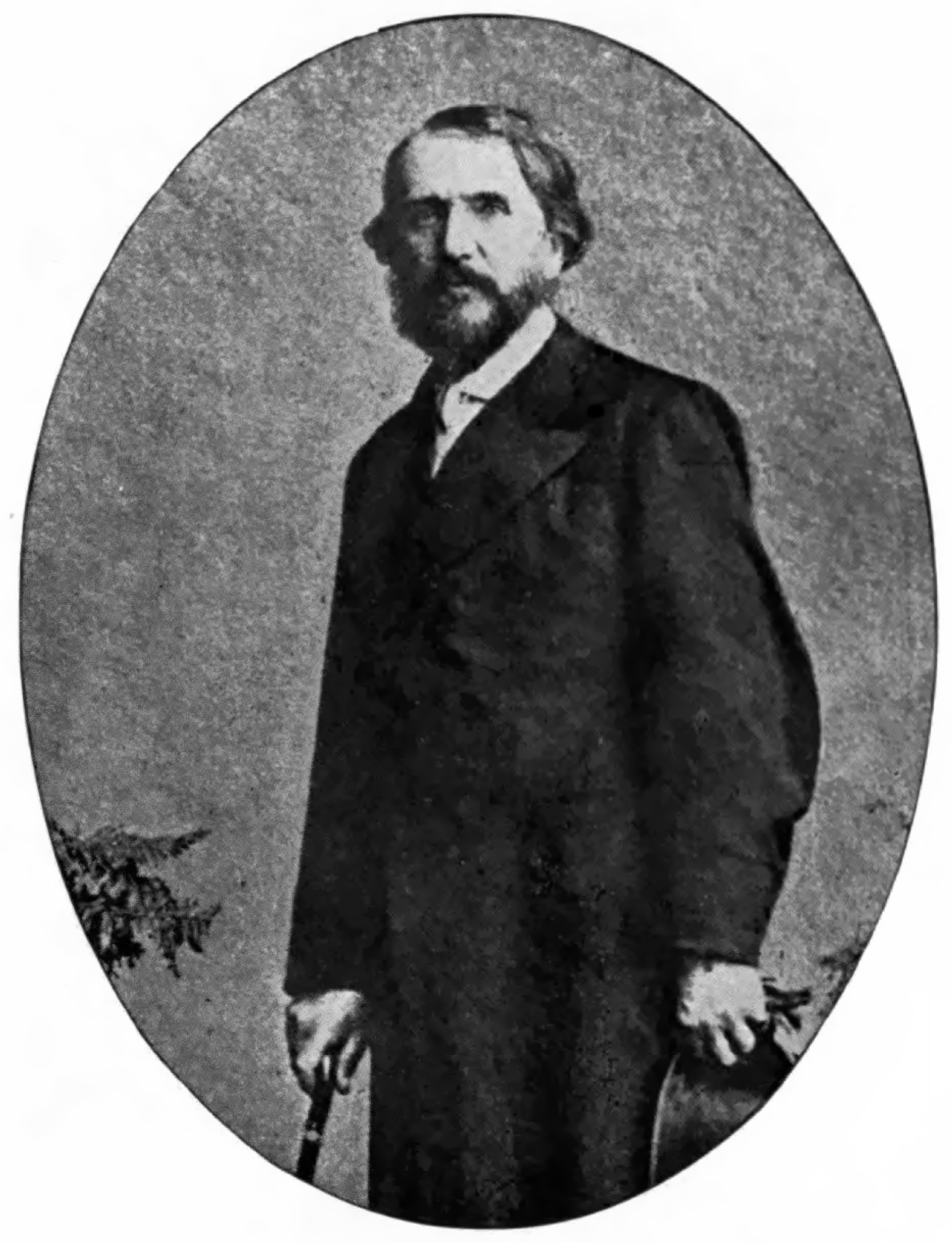 Joseph Thomas Sheridan Le Fanu (1814 – 1873) was an Irish writer of Gothic tales and mystery novels.